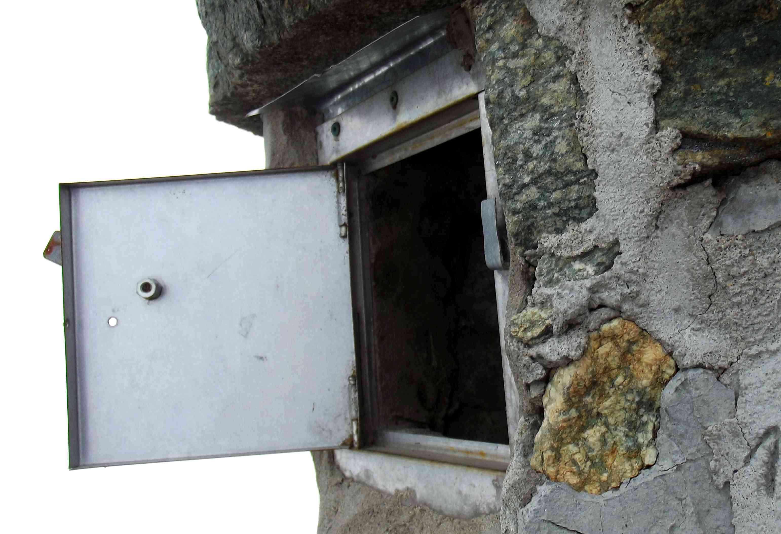 Cima Montù (Graian Alps, Italy): summit register location